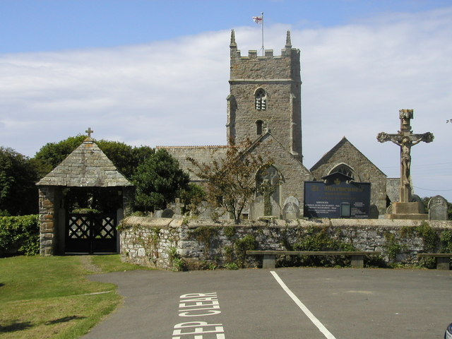 St Marwenna's parish church, Marhamchurch, Cornwall, seen from the east